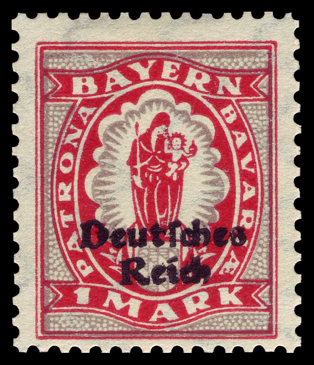 Bavarian definitive stamp series with overprint "Deutsches Reich", so called "Abschiedausgabe" Ausgabepreis: 1 Mark First Day of Issue / Erstausgabetag: 6. April 1920 Michel-Katalog-Nr: 129 (Deutsches Reich)